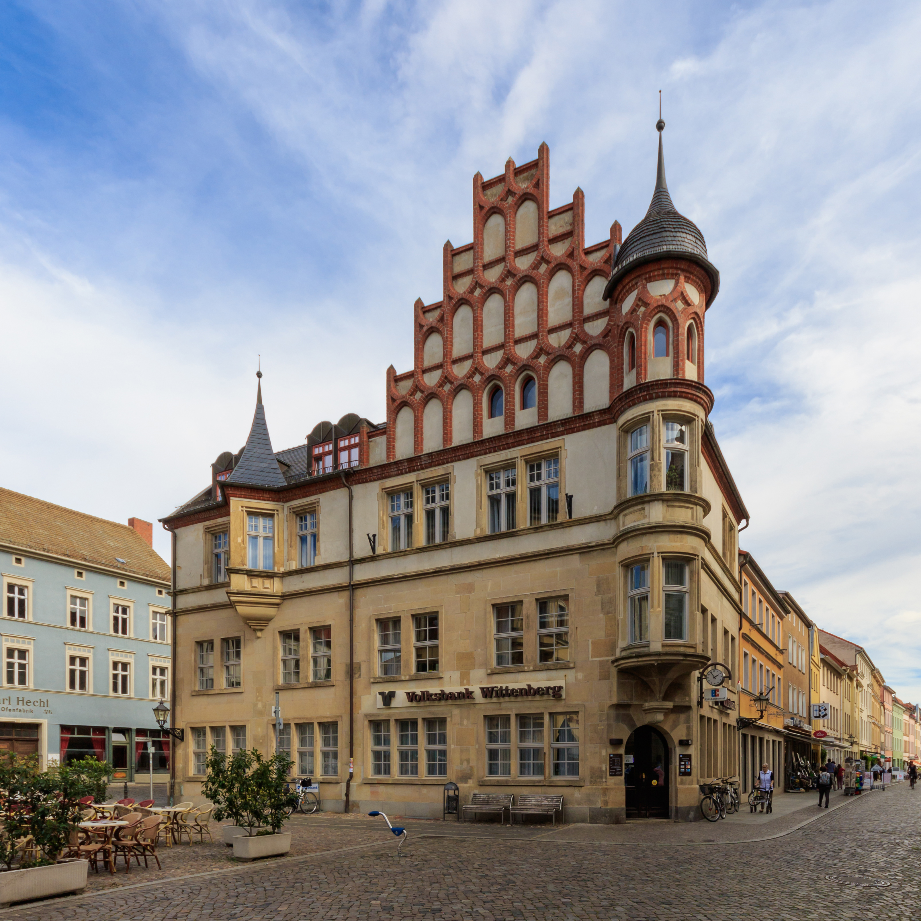 Hamlethaus in Wittenberg, Saxony-Anhalt, Germany